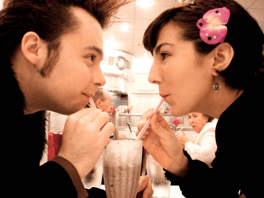 We couldn't get a really good picture of this milestone in dating because the shake was so good we couldn't stop sipping it!